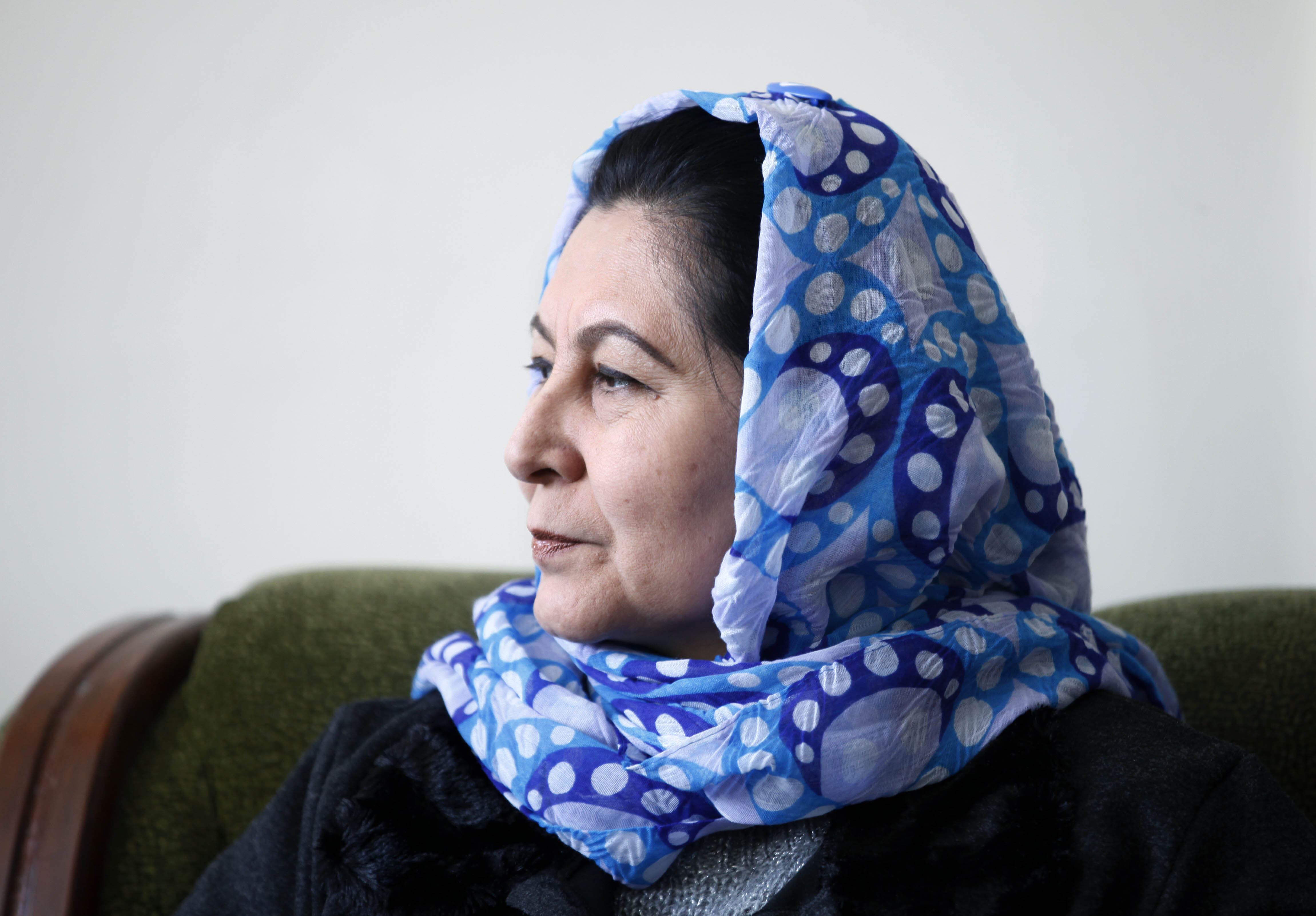 Minister of Women's Affairs Husn Banu Ghazanfar attends the opening of the Ministry's renovated Legal Department building in Kabul, Afghanistan.